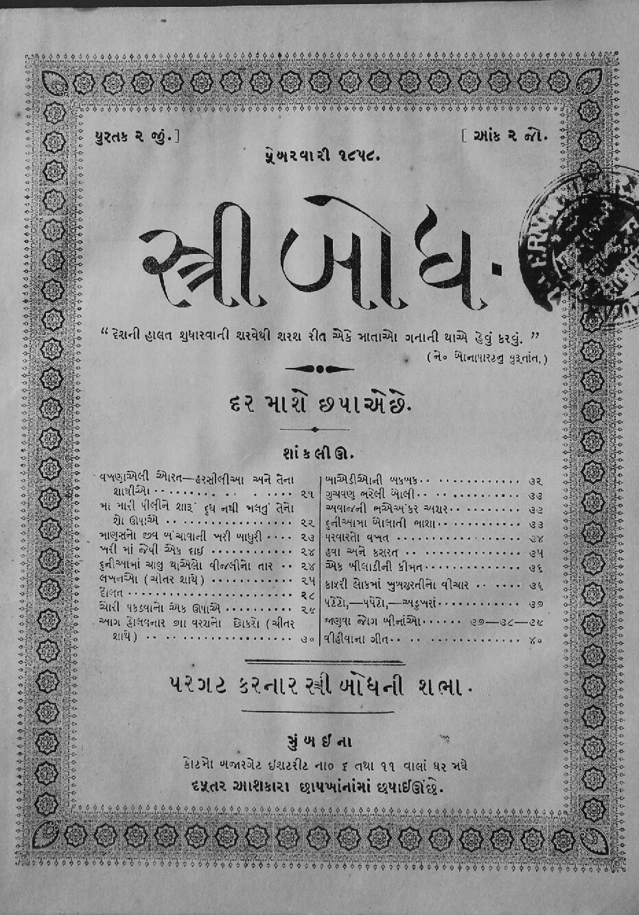 Cover of Stribodh, a Gujarati language magazine from British India; Volume 2, Number 2, February 1858.